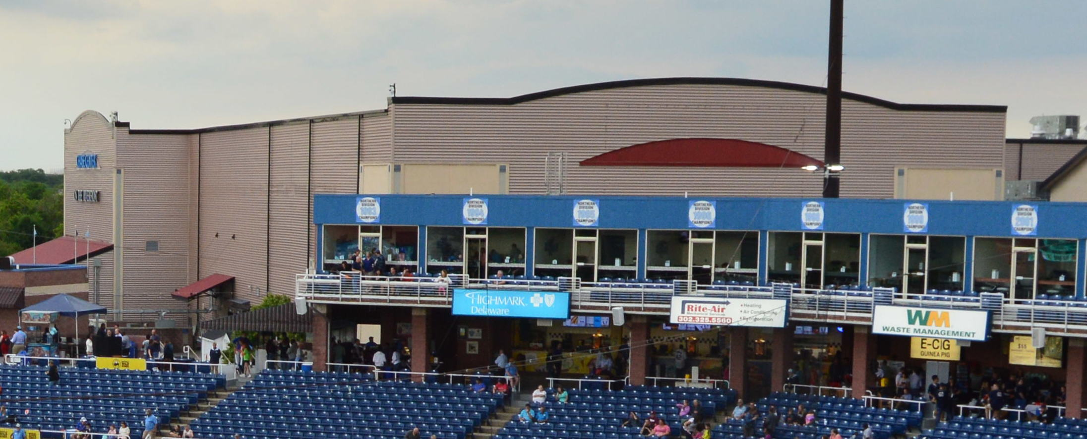 Wilmington Blue Rocks minor league baseball team playing the Lynchburg Hillcats at Fraley Field in Wilmington